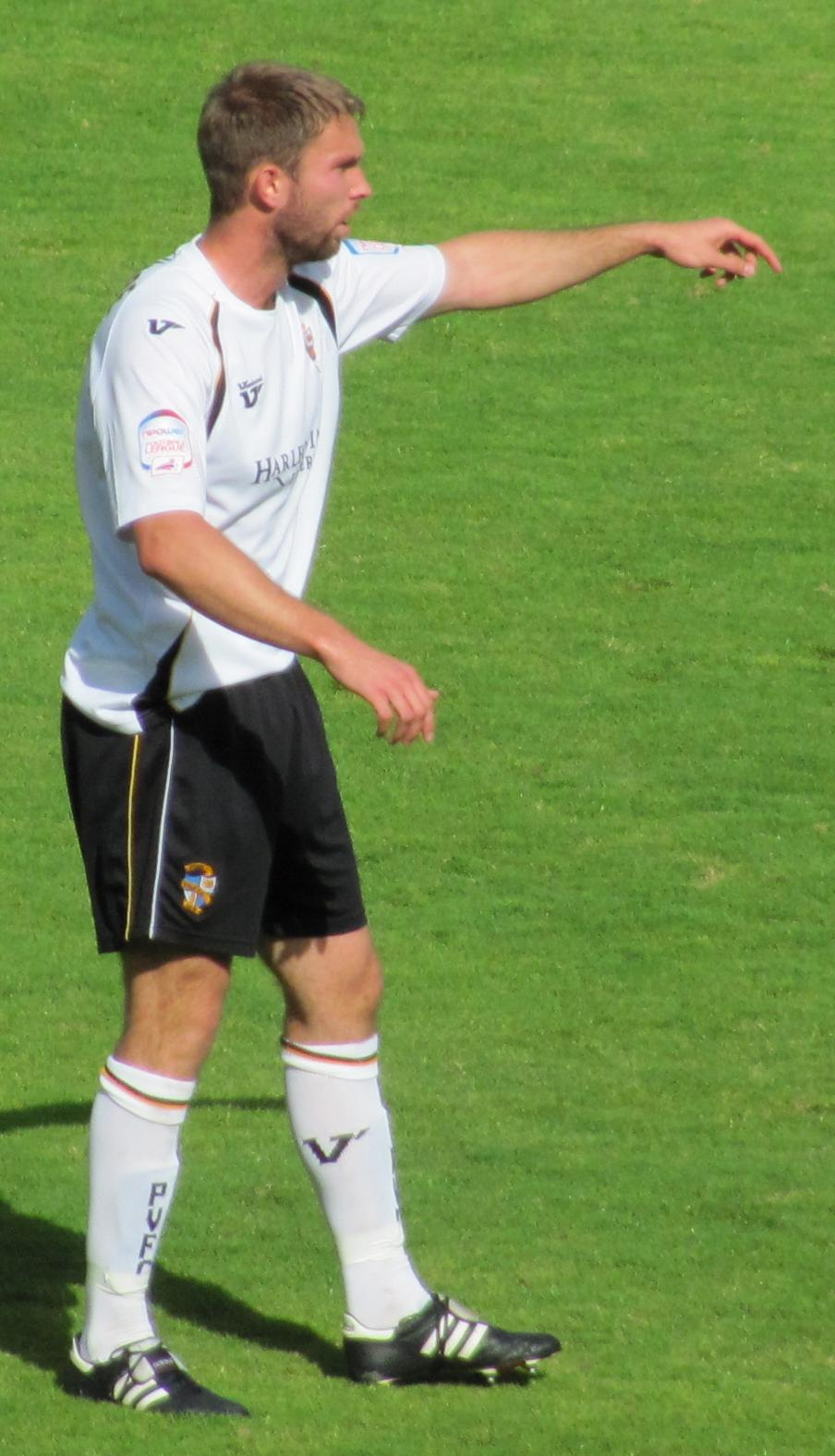 John McCombe